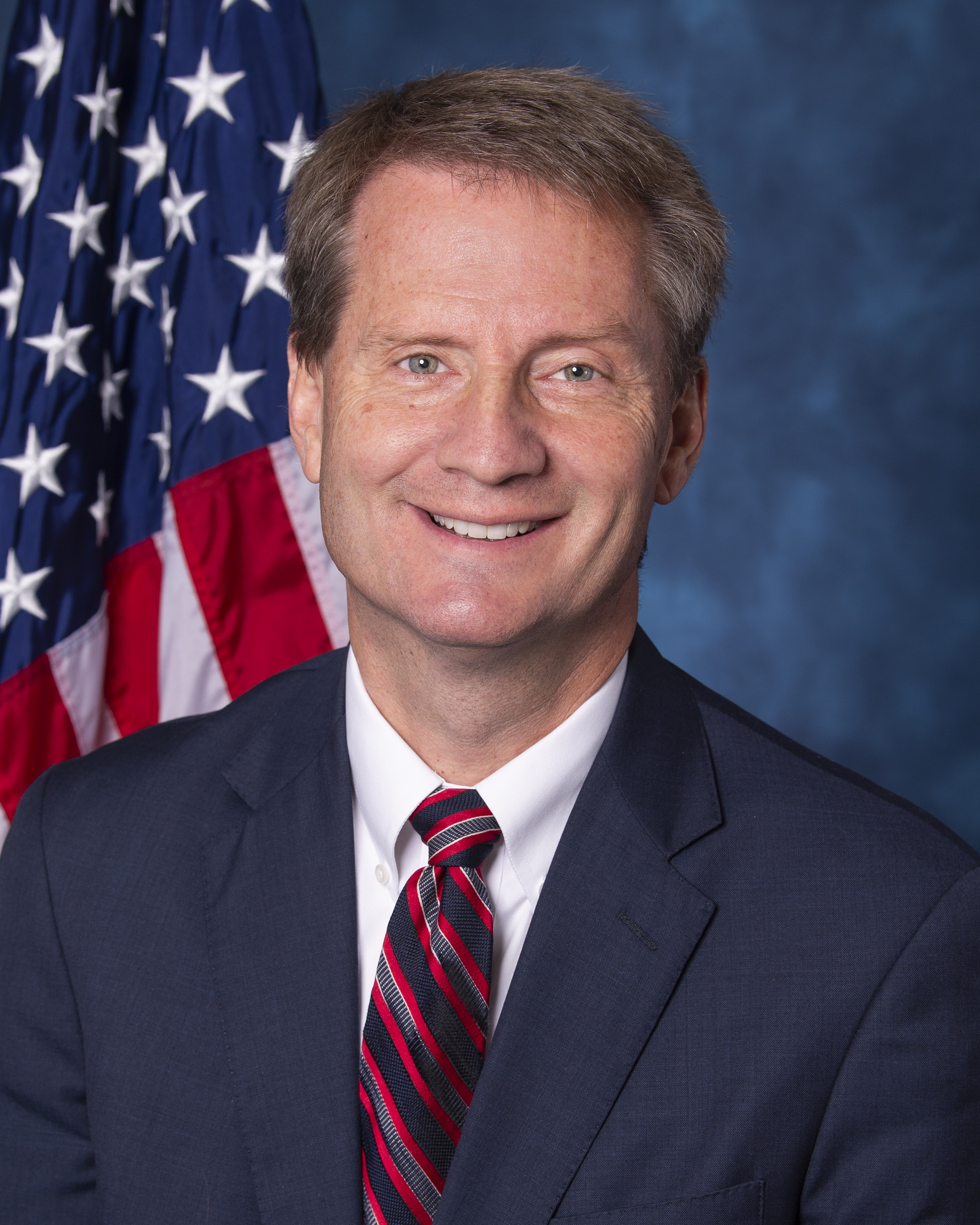 Official photo of freshman Rep. Tim Burchett of Tennessee's 2nd district from the 116th Congress.